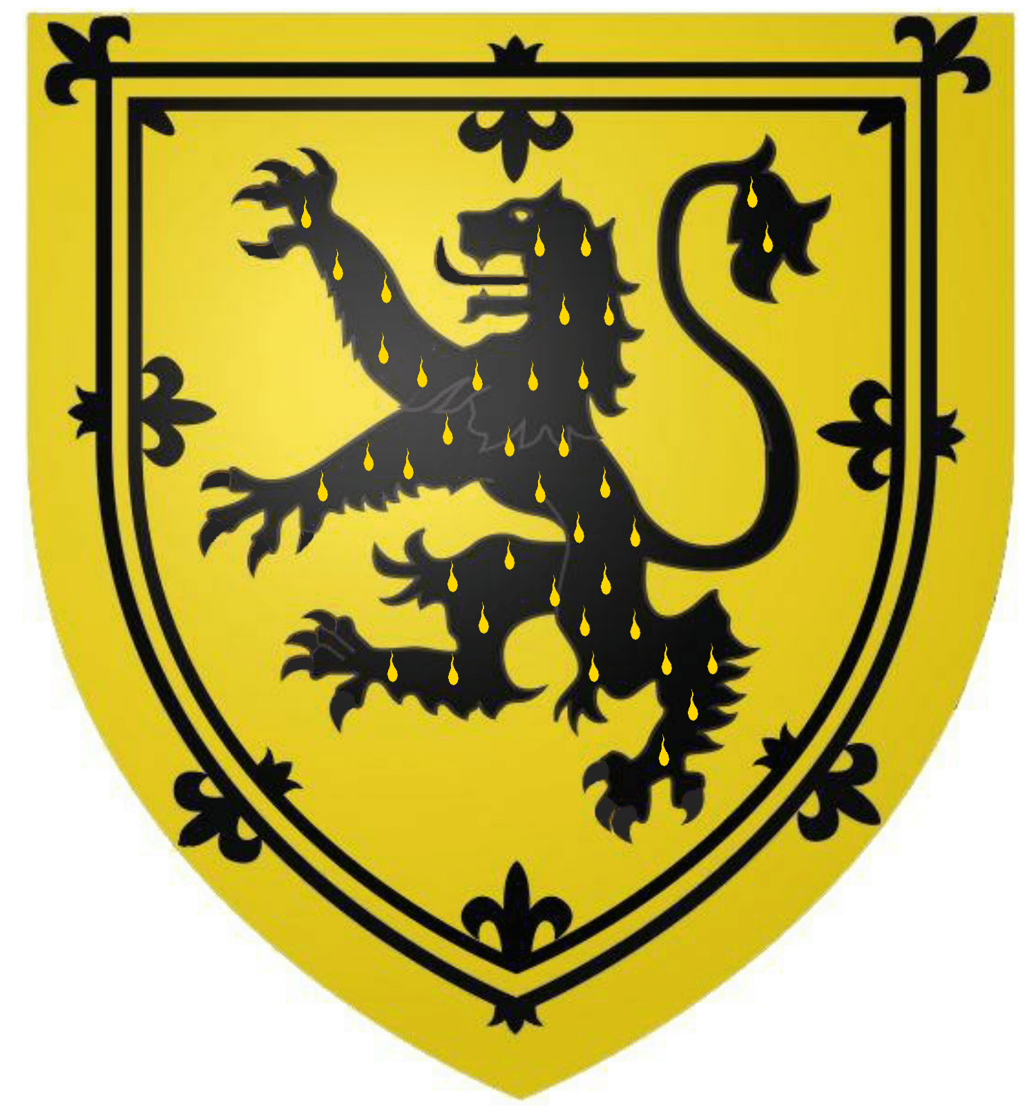 The Scots Roll of 1455 describes a number of Scottish coats of arms. This graphic is based on the description given for Bachanane (Buchanan).